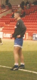 Martin Grainger warming up for Brentford v Walsall, 24 February 1996.